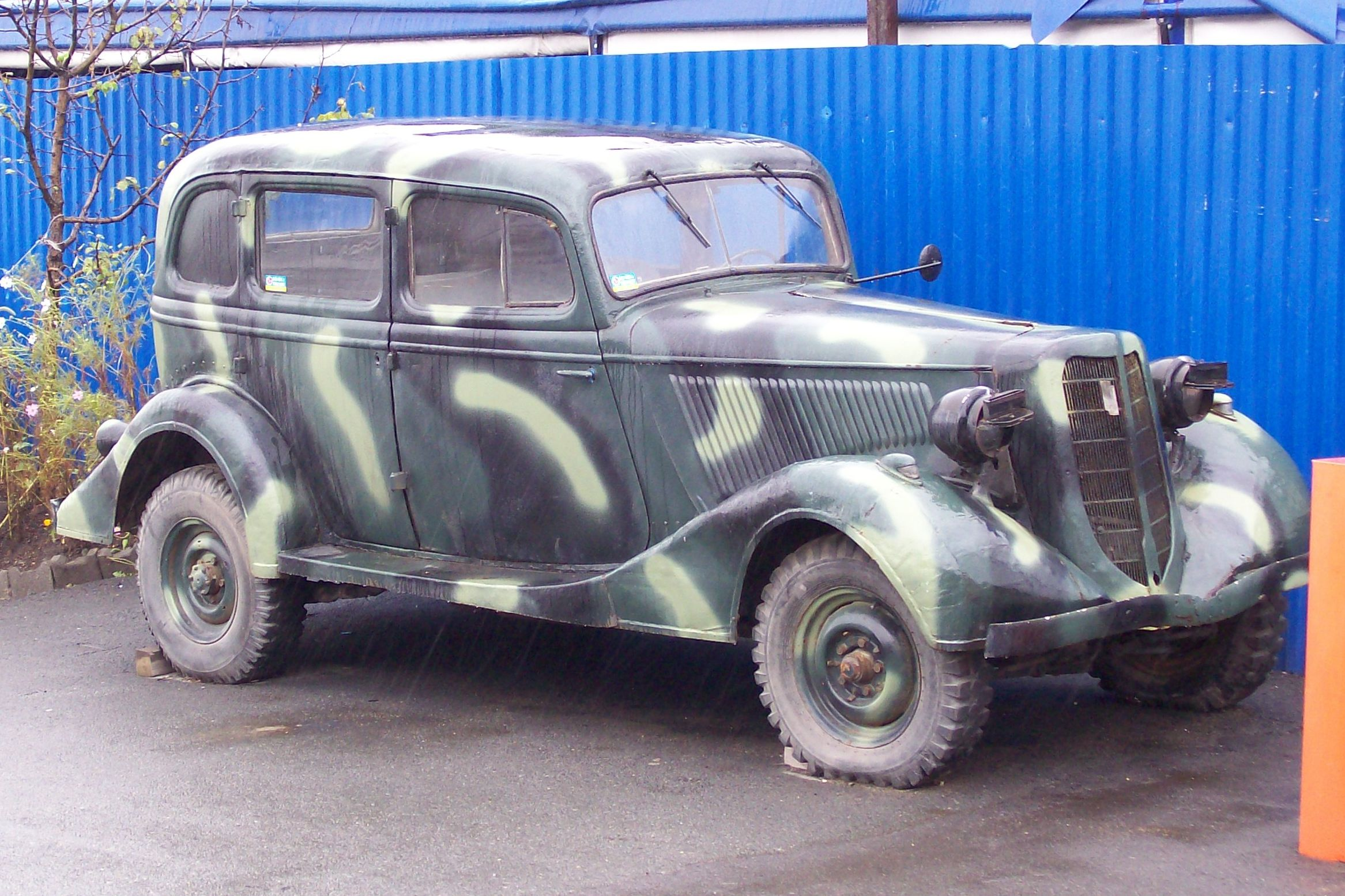 GAZ-M1